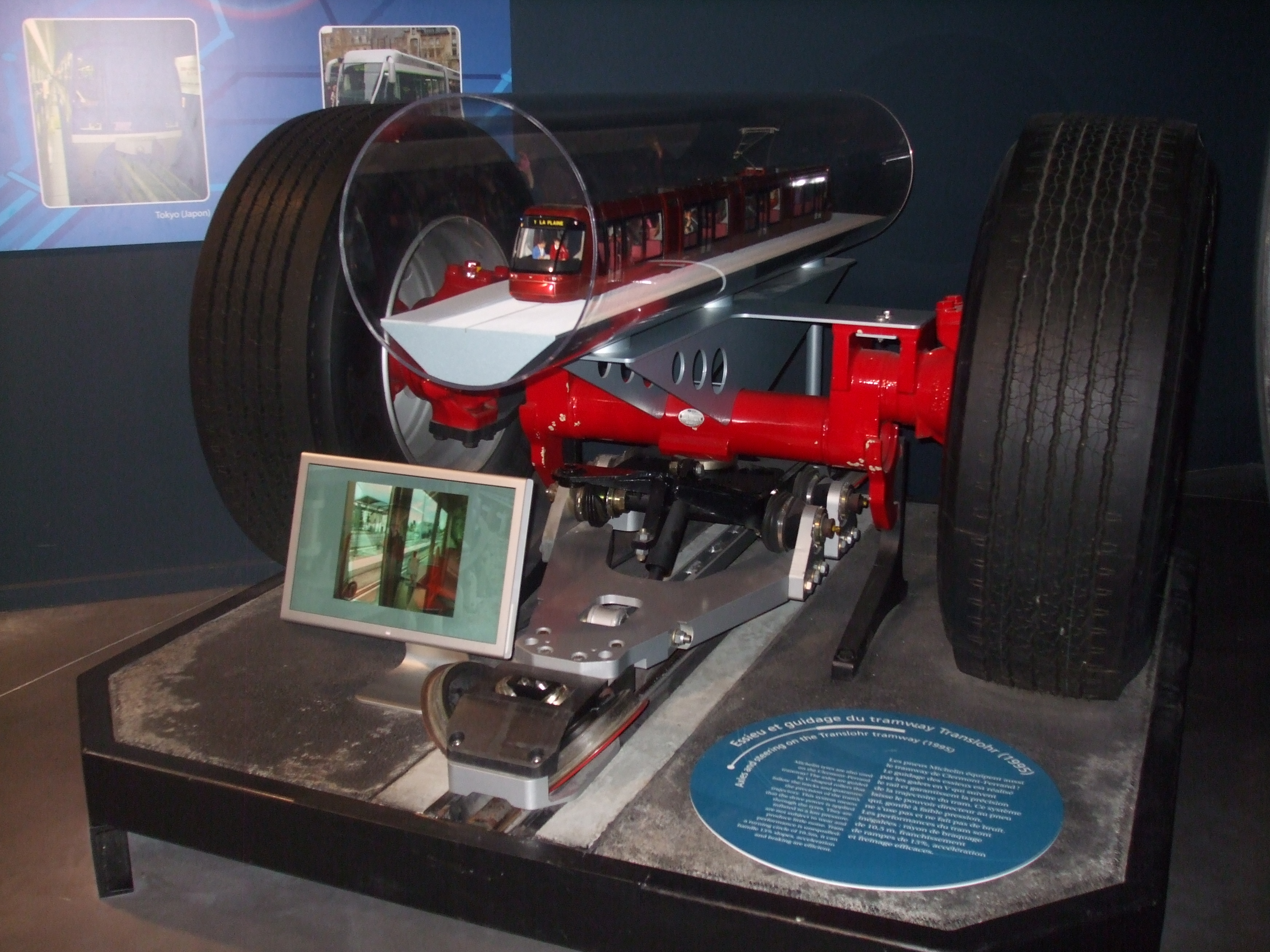 The Michelin Adventure in Clermont-Ferrand describes the rôle of Michelin in the development of the tyre. Guidance and steerage in a Translohr tram 1995. Rubber tyres are used to support the vehicle, while metal wheels and a single rail are used for guidance.